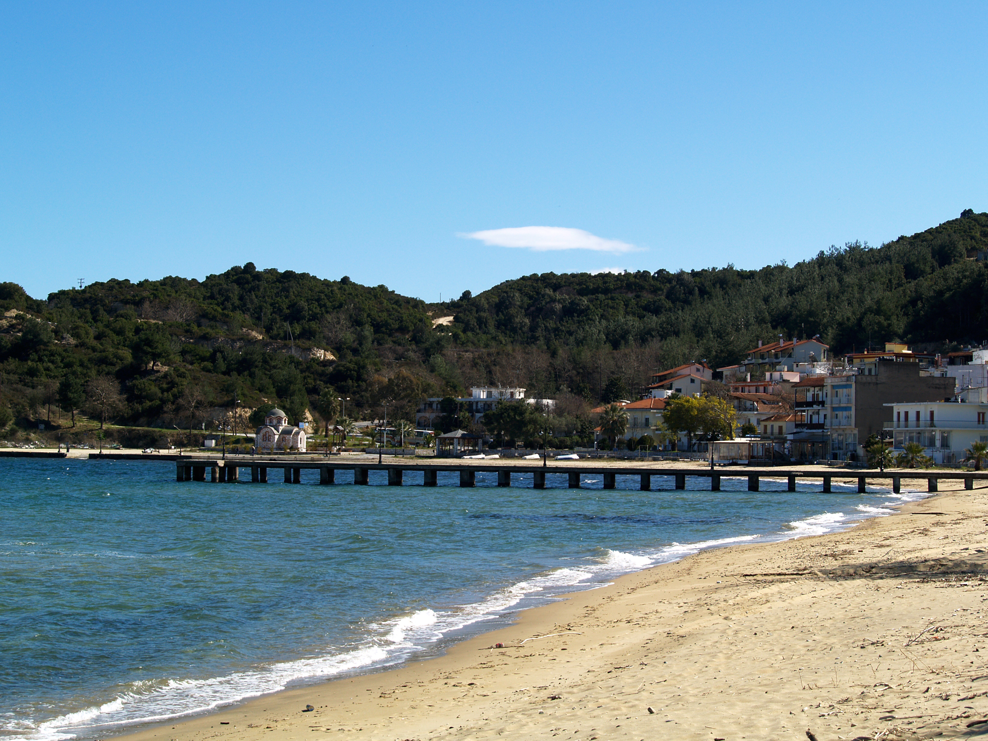 Olympiada beach, Halkidiki, Greece